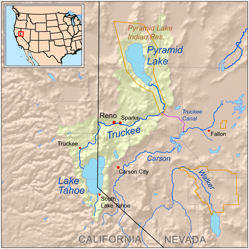 Map showing the Truckee River drainage basin — in California and Nevada.